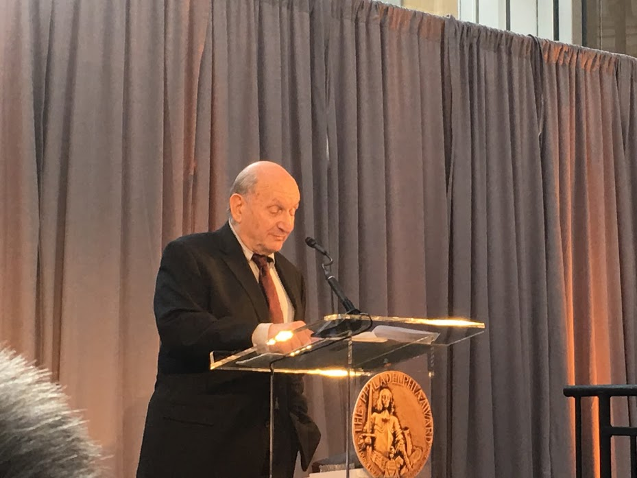 Gay rights activist Mel Heifetz accepts his Philadelphia Award.